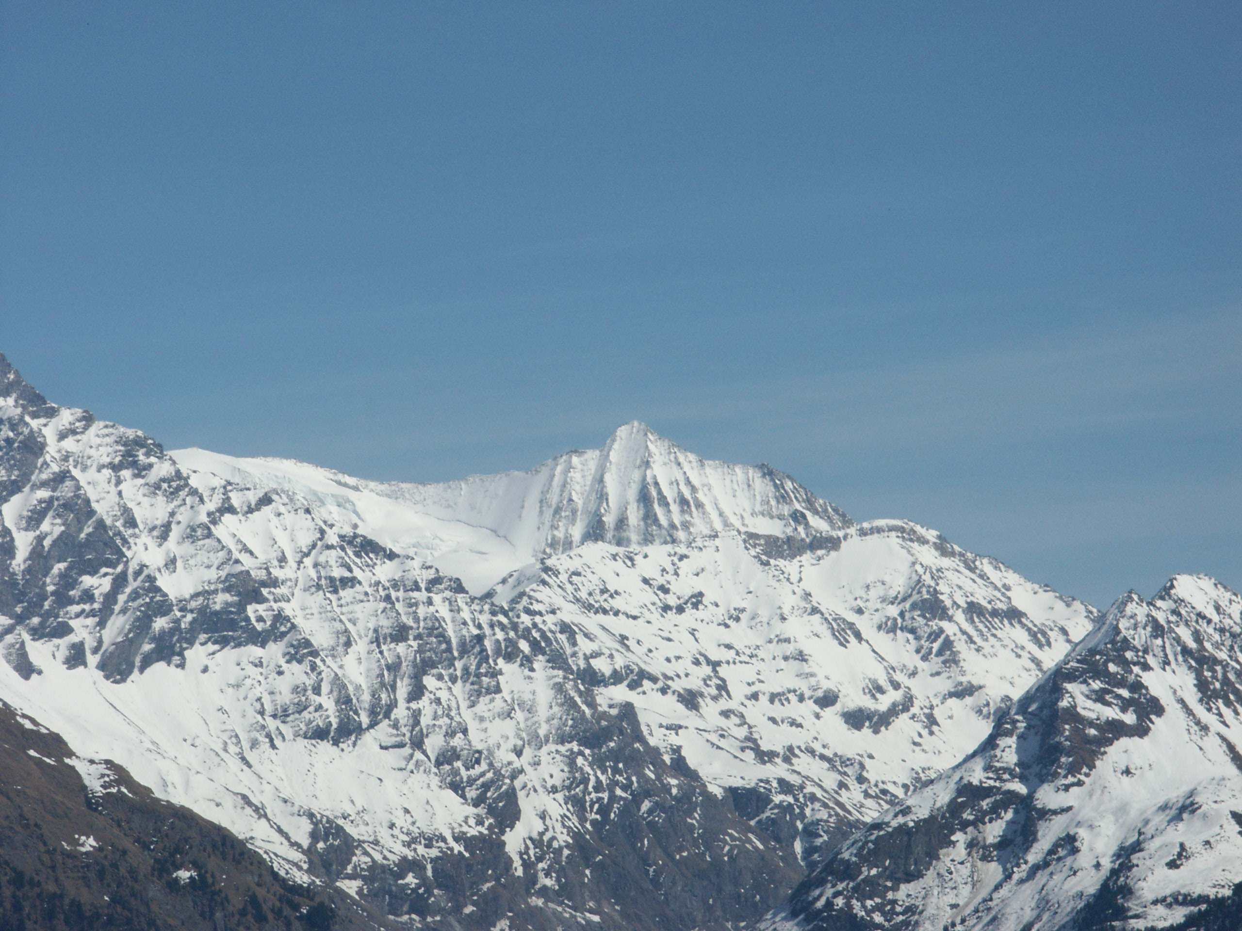 As seen from the Col du Lein, Valais, Switzerland.